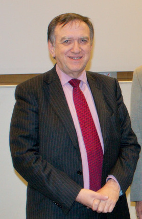 Professor Robert Burgess at Professor Thomas Erlebach's Inaugural Lecture at the University of Leicester